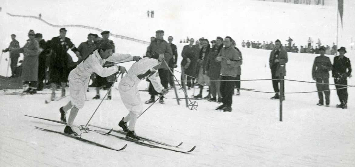 St. Moritz Olympics: Nils Östensson (left) wins the first leg of 4 x 10 km relay and sends Nils Täpp (right) to the second leg